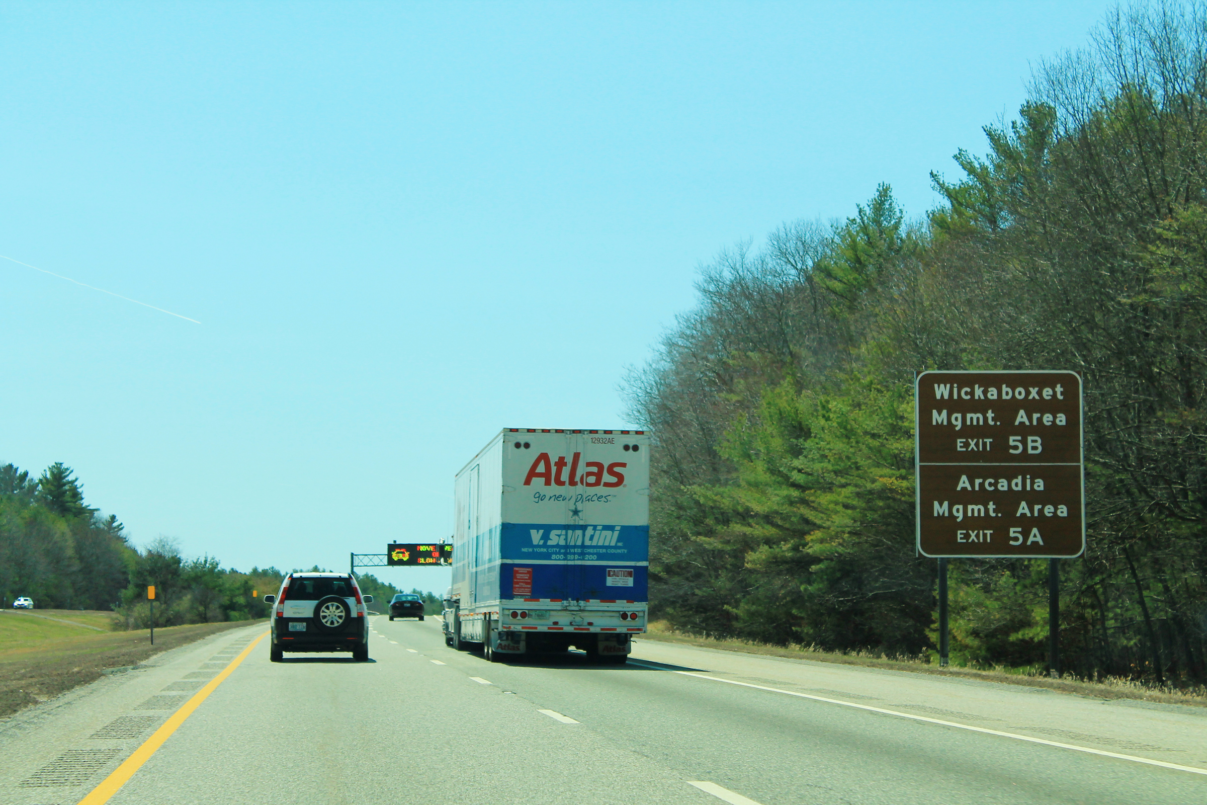 Int95sRoadRI-WickaboxetExit5B